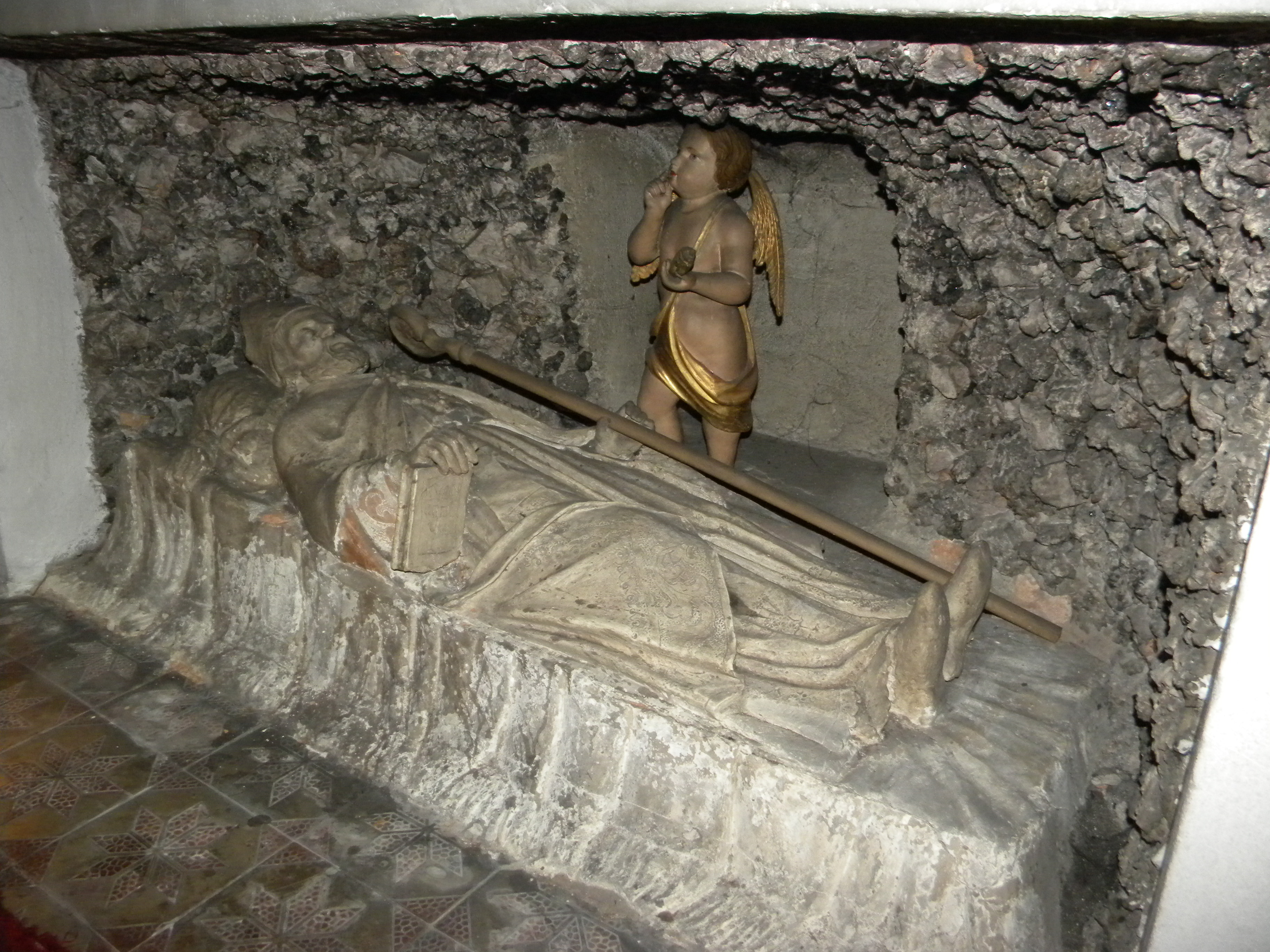 st maximilian tomb in church